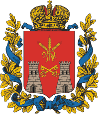 Płock gubernia (Russian empire), coat of arms